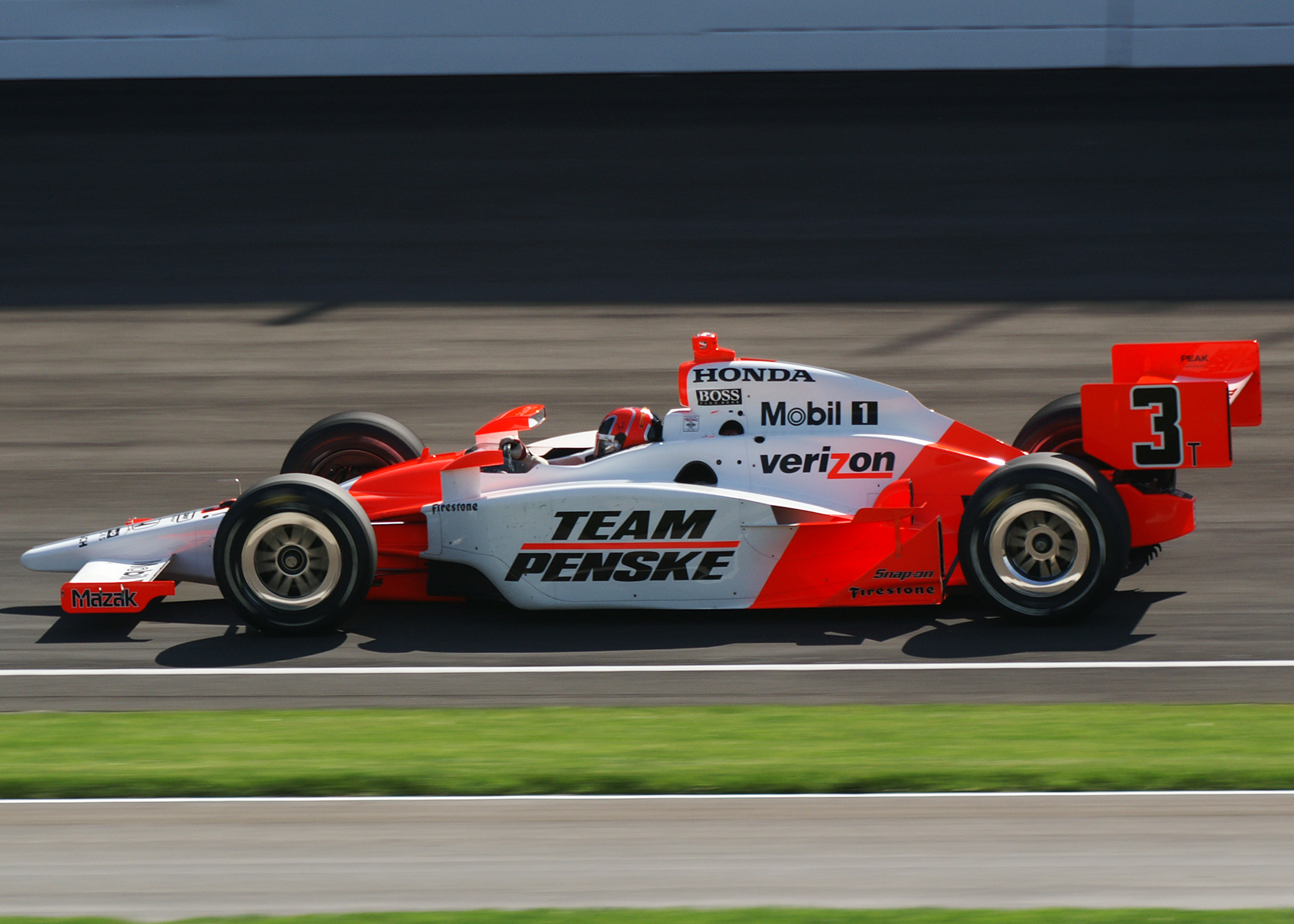 Hélio Castroneves during a practice session at the Indianapolis Motor Speedway.